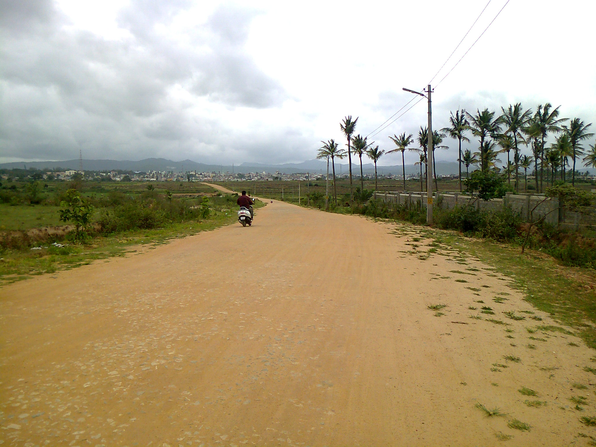 This road connects the town and the residential areas (Kalyana Nagar, Kadur - Bangalore Bypass) a hill station in Karnataka, India.